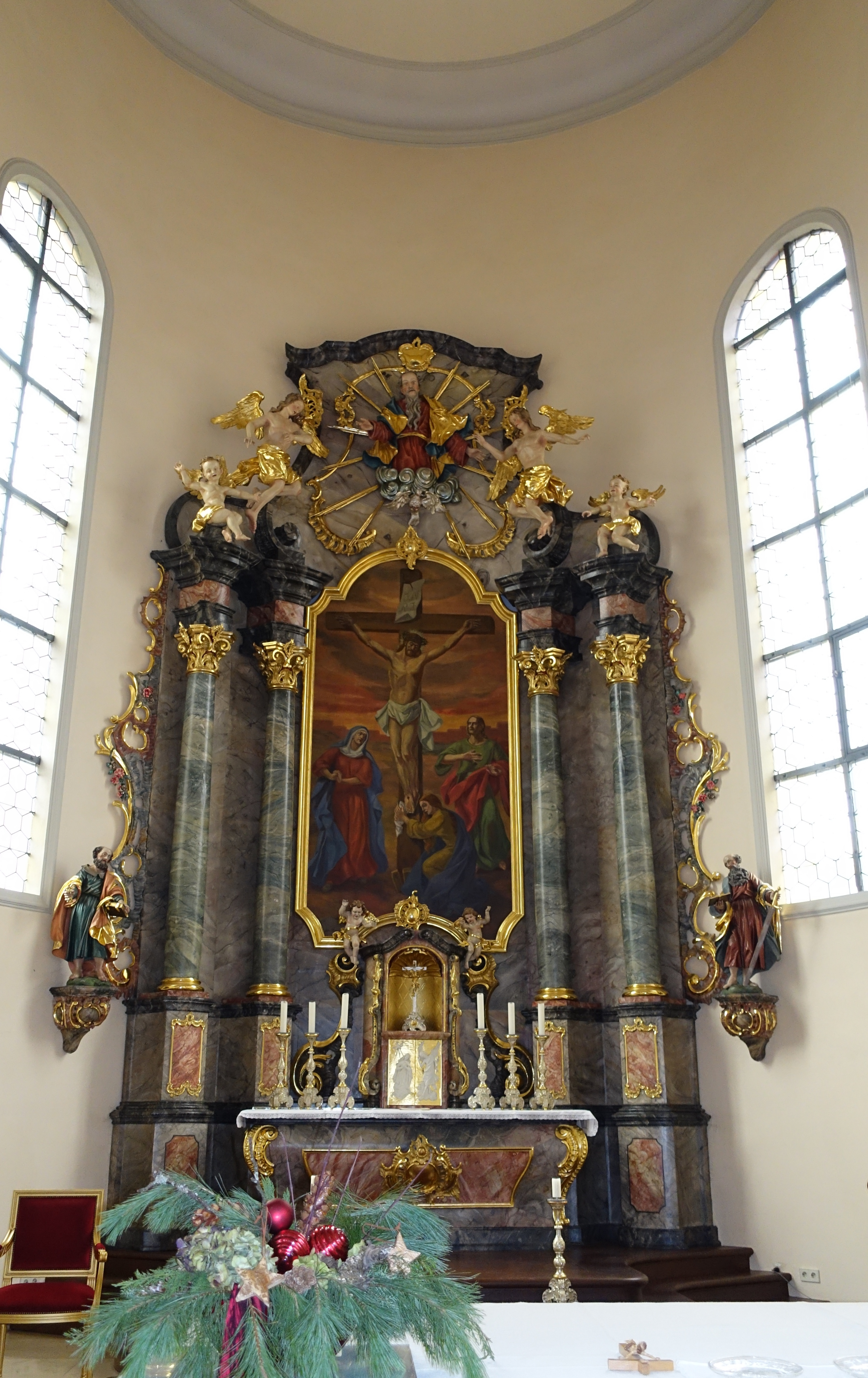 St. Peter und Paul, Welschensteinach, Ortenaukreis, Baden-WÜrttemberg, main altar